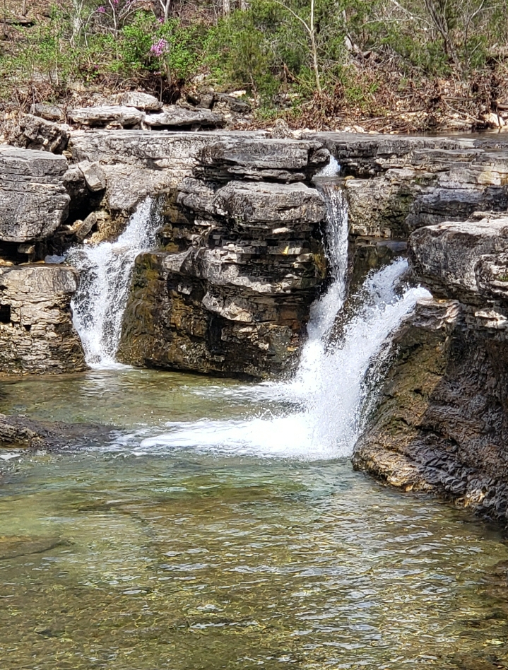 The main waterfall at Hercules Glades Wilderness in Mark Twain National Forest, Missouri. There are two other major waterfalls in the park.